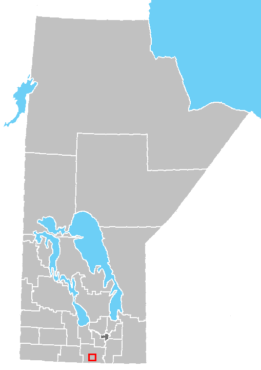 Location of Winkler, Manitoba